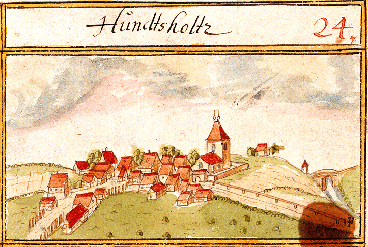 View of Adelberg from the forest register books created by Andreas Kieser